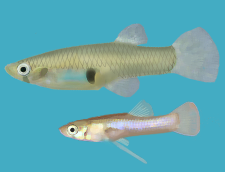 Gambusia holbrooki. Female (up), male (down)